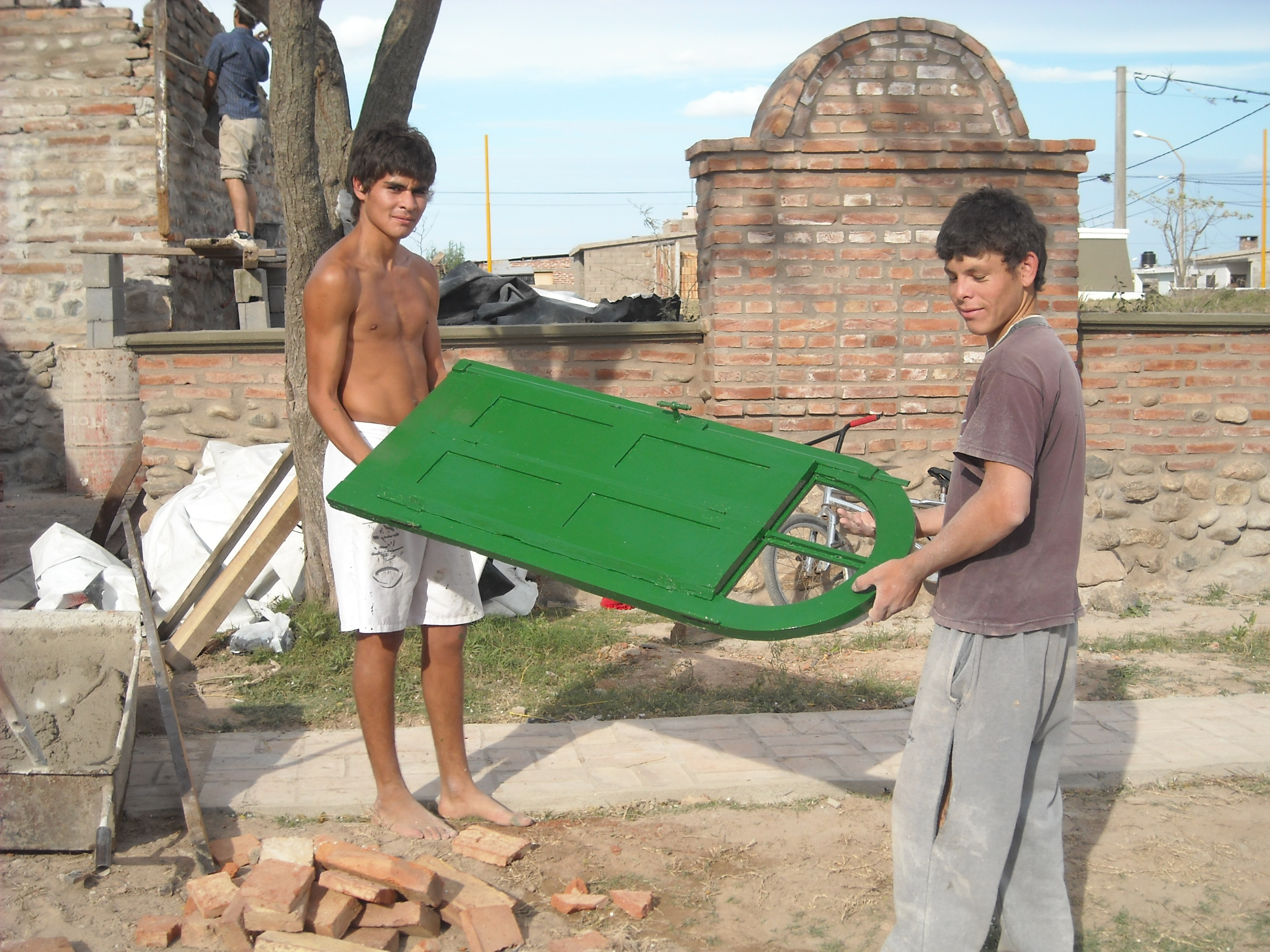 Vecinos colaborando en los trabajos de reconstrucciòn de la Capilla històrica de San José Obrero